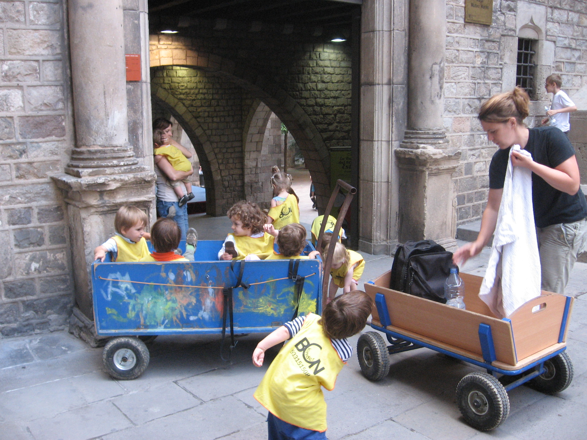 kindergarten's children, Barcelona, with their cart